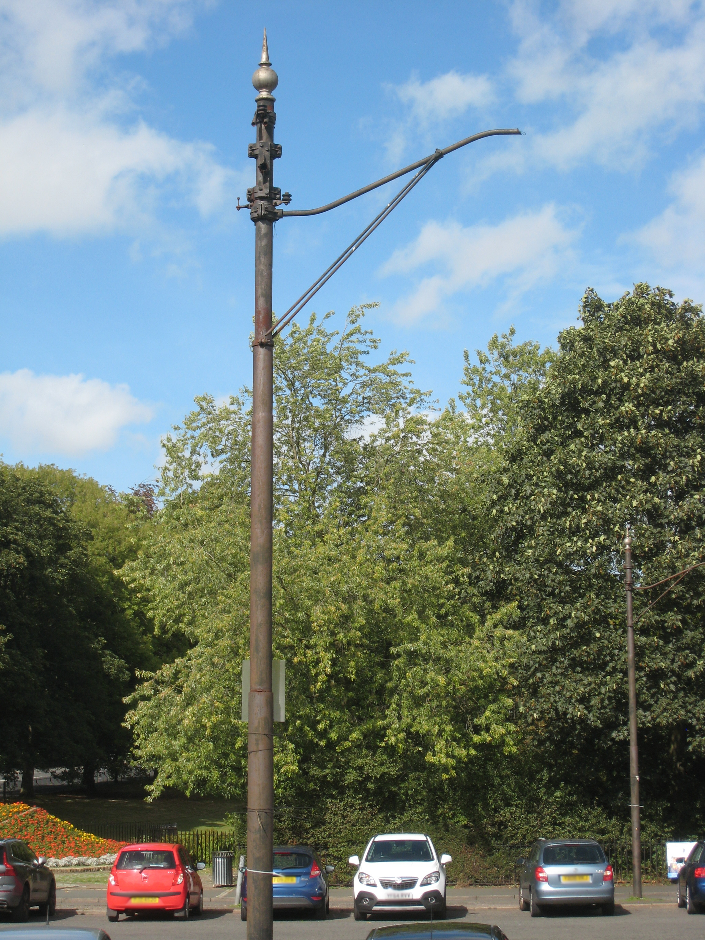 Former Tram wire support pylons in former tram terminus, Roundhay. Now car parking for Roundhay park.